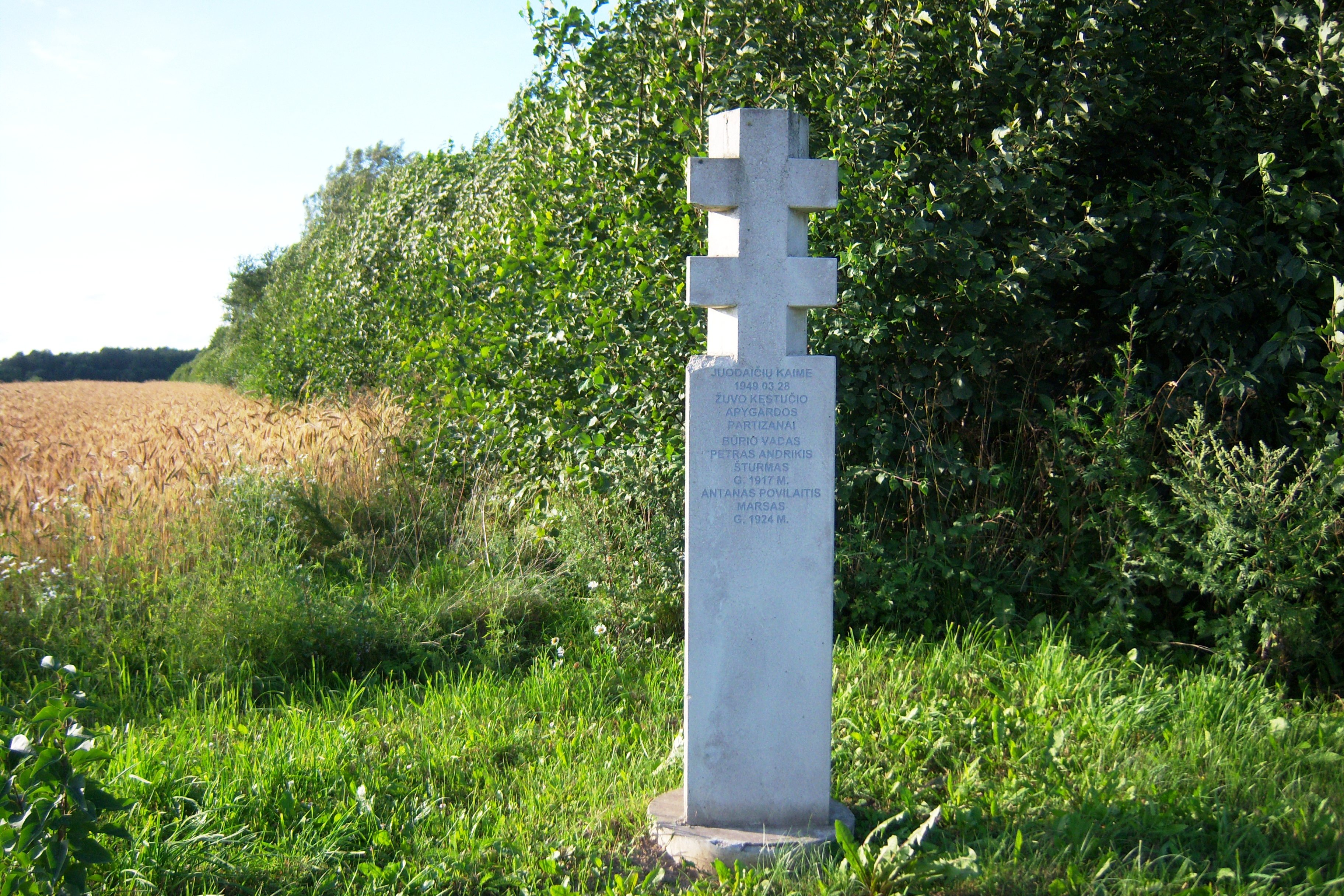 Monument to resistence movement victims, Juodaičiai, Jurbarkas district Lithuania